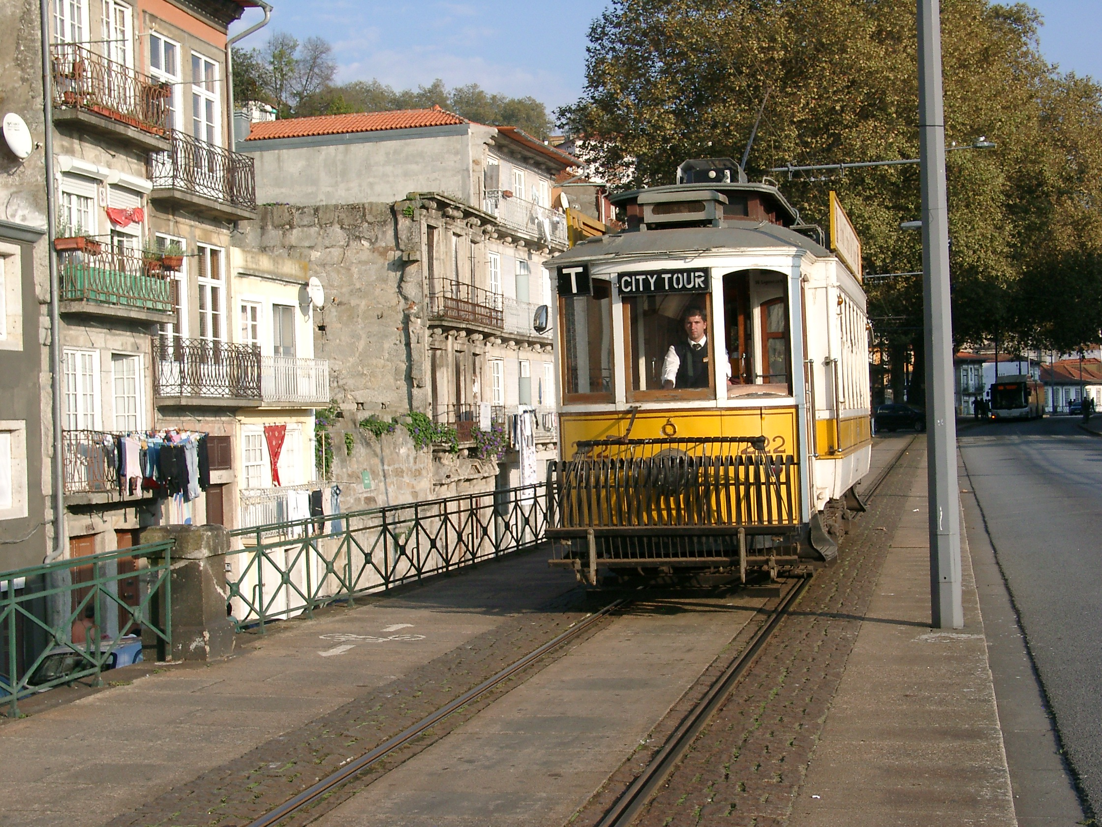 Tramway of Porto, T